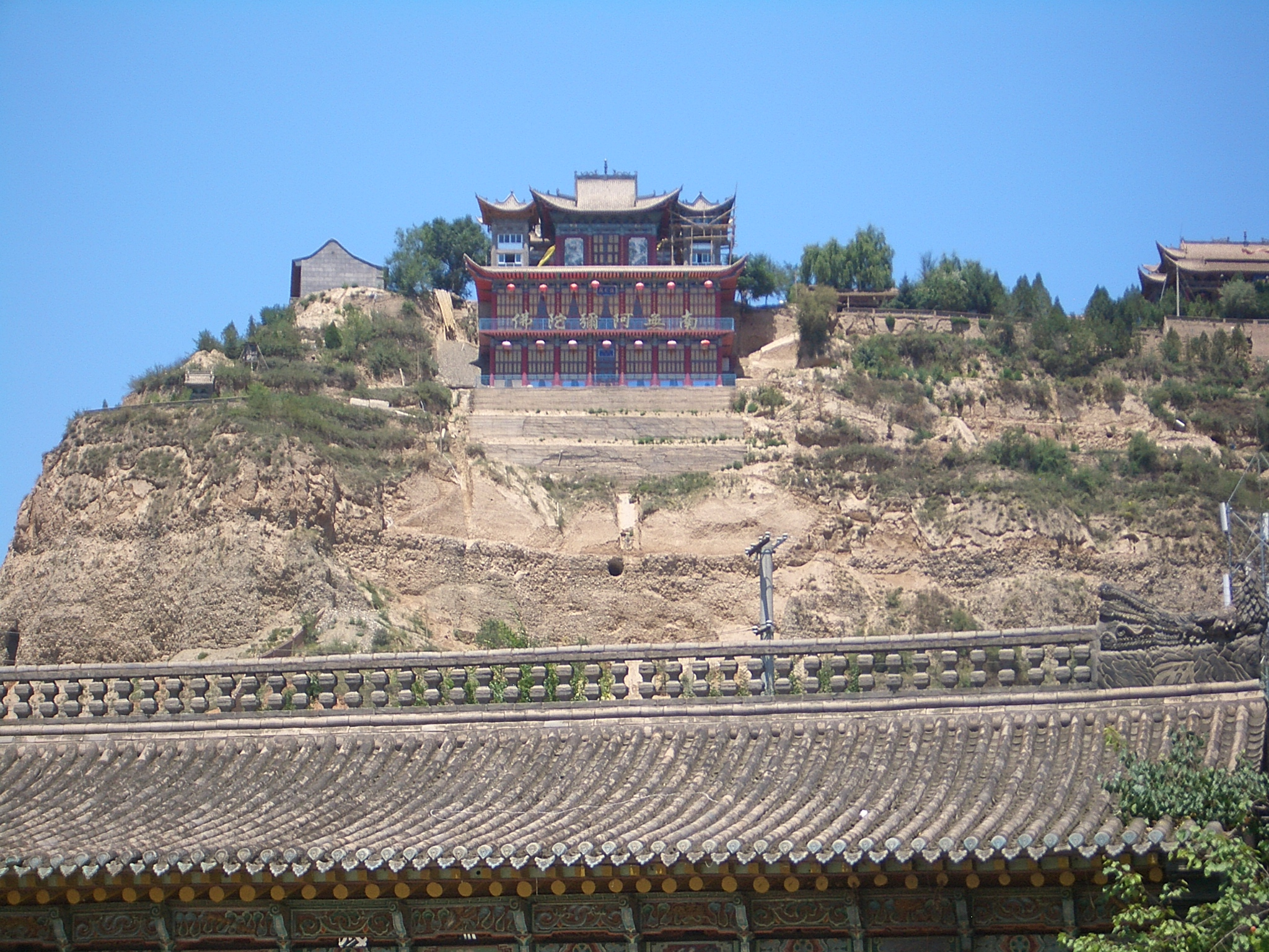 Yu Baba Gongbei on the north side of Linxia City